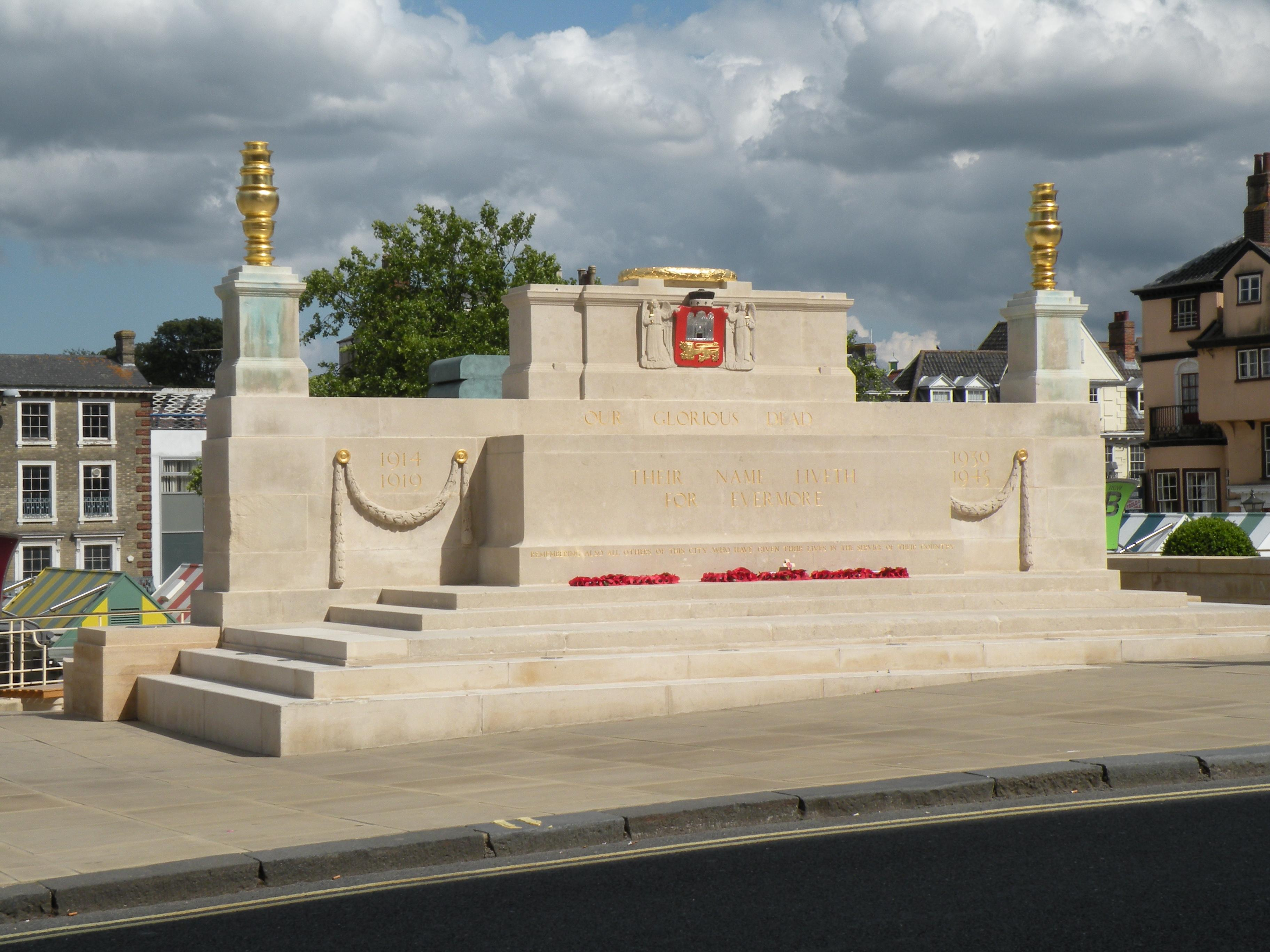 The War Memorial outside City Hall in Norwich